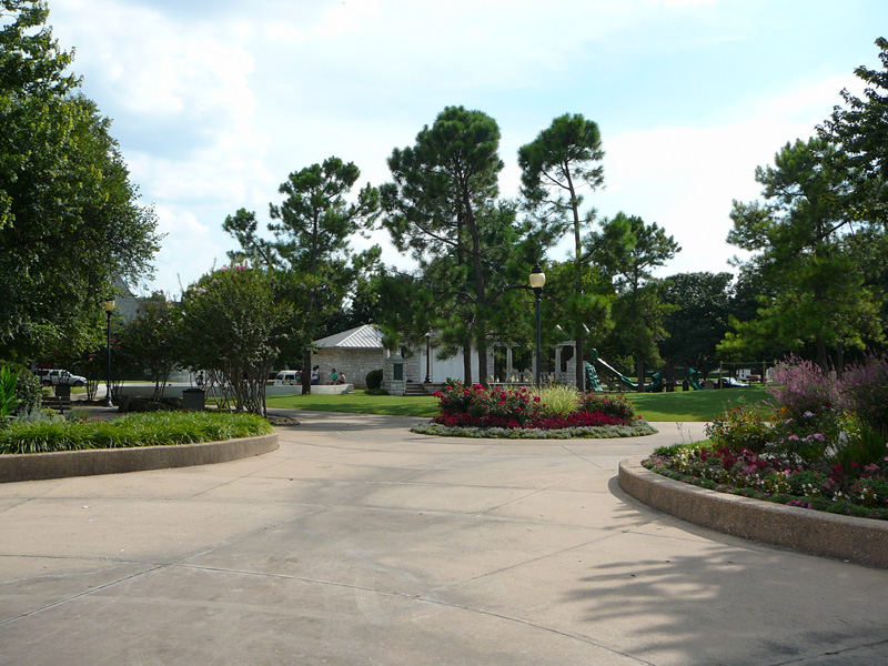 I took this photo myself on 03/05/06.